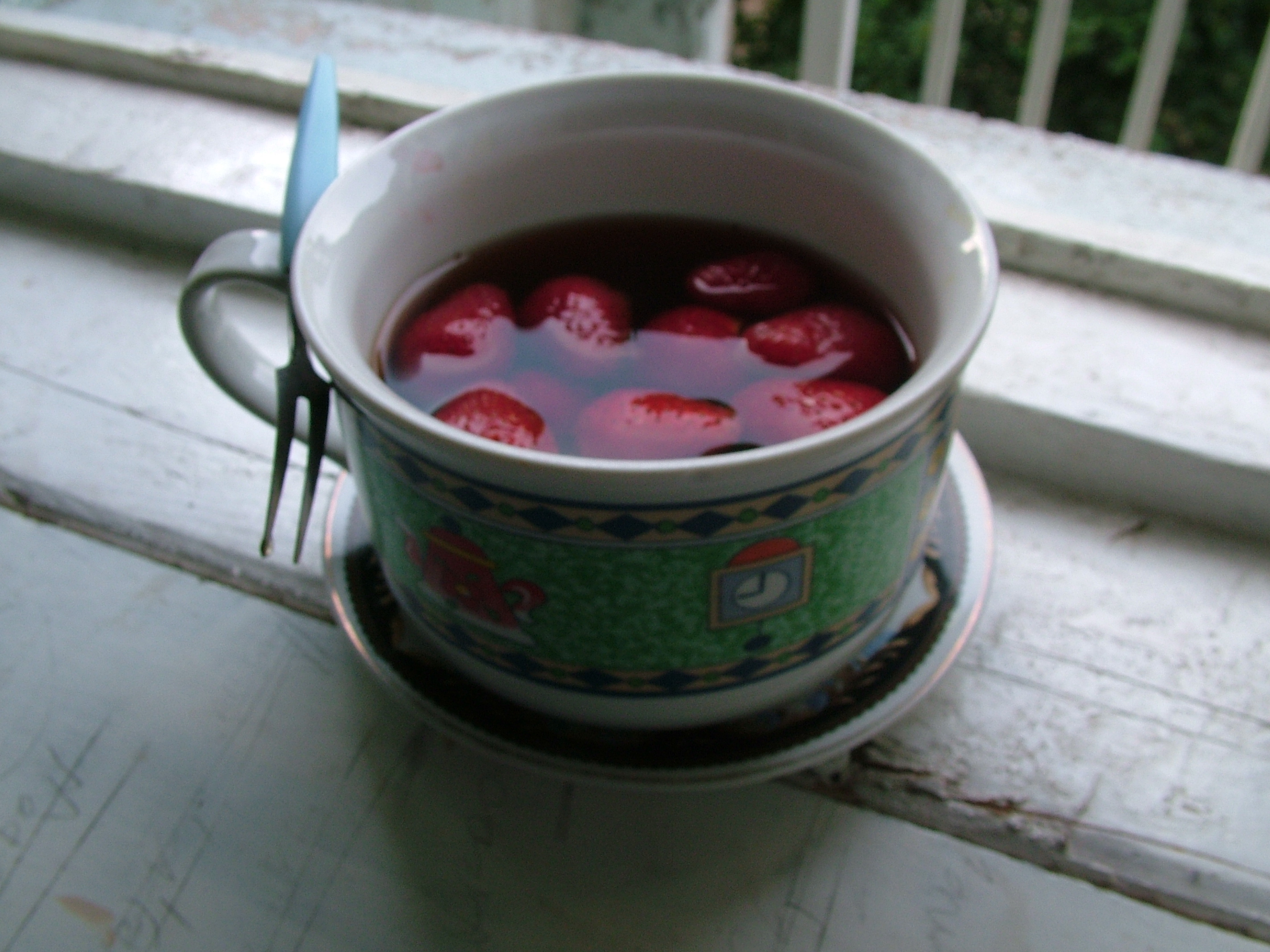 A mint tea made in New Belgrade, Serbia by my mum. I have added strawberries into the tea as taste experiment. It is delicious! Try it!